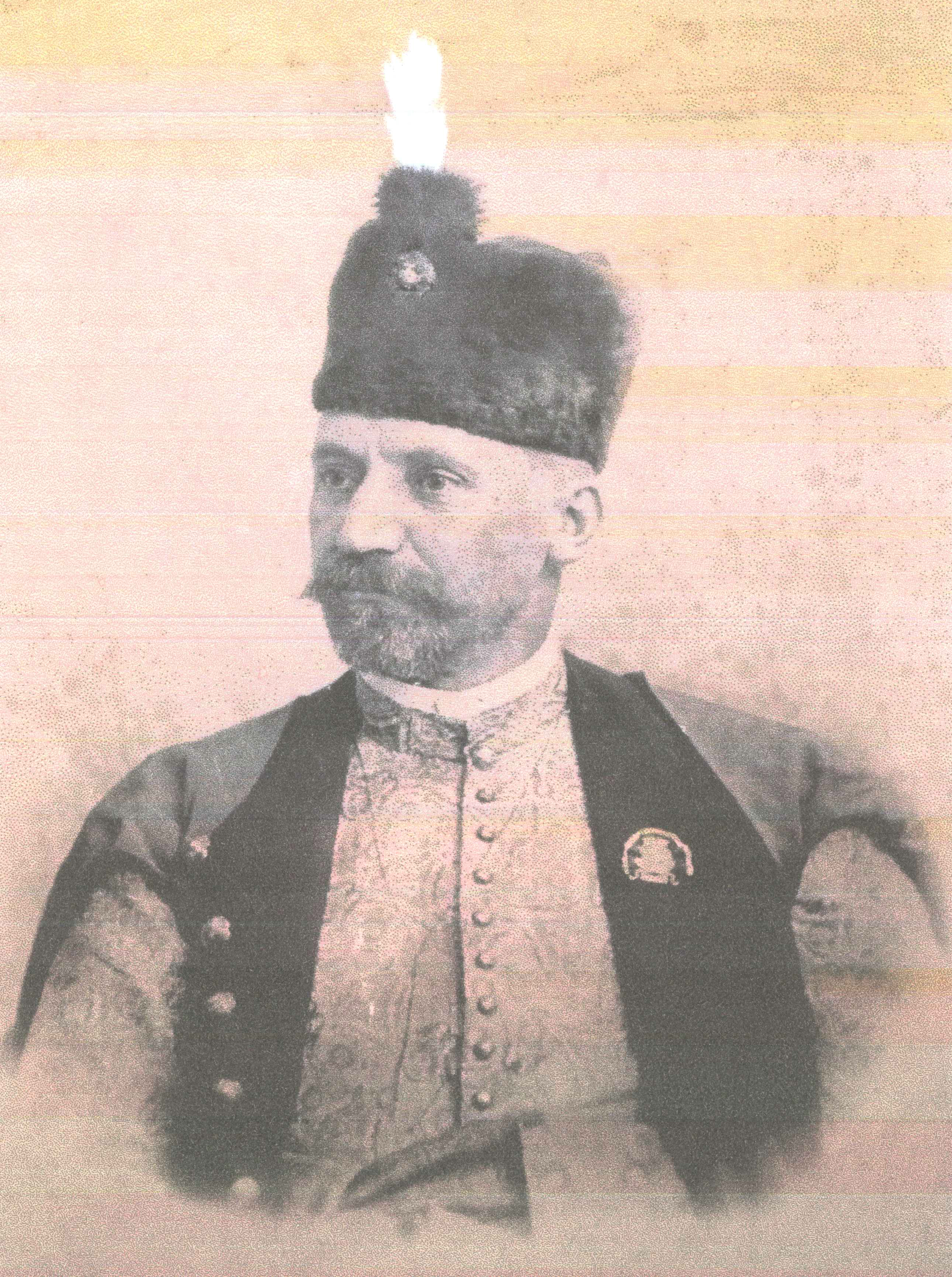 Antoni Kalina